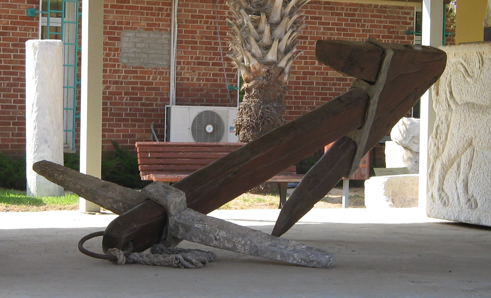 Wood anchor with lead plummet and clamps, found in Ashqelon coast and dated to the Hellenistic-Roman period